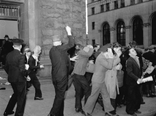 Post office and Art Gallery sit-down strike, May and June 1938. Policemen and R.C.M.P. evicting demonstrators from Post Office with tear gas.